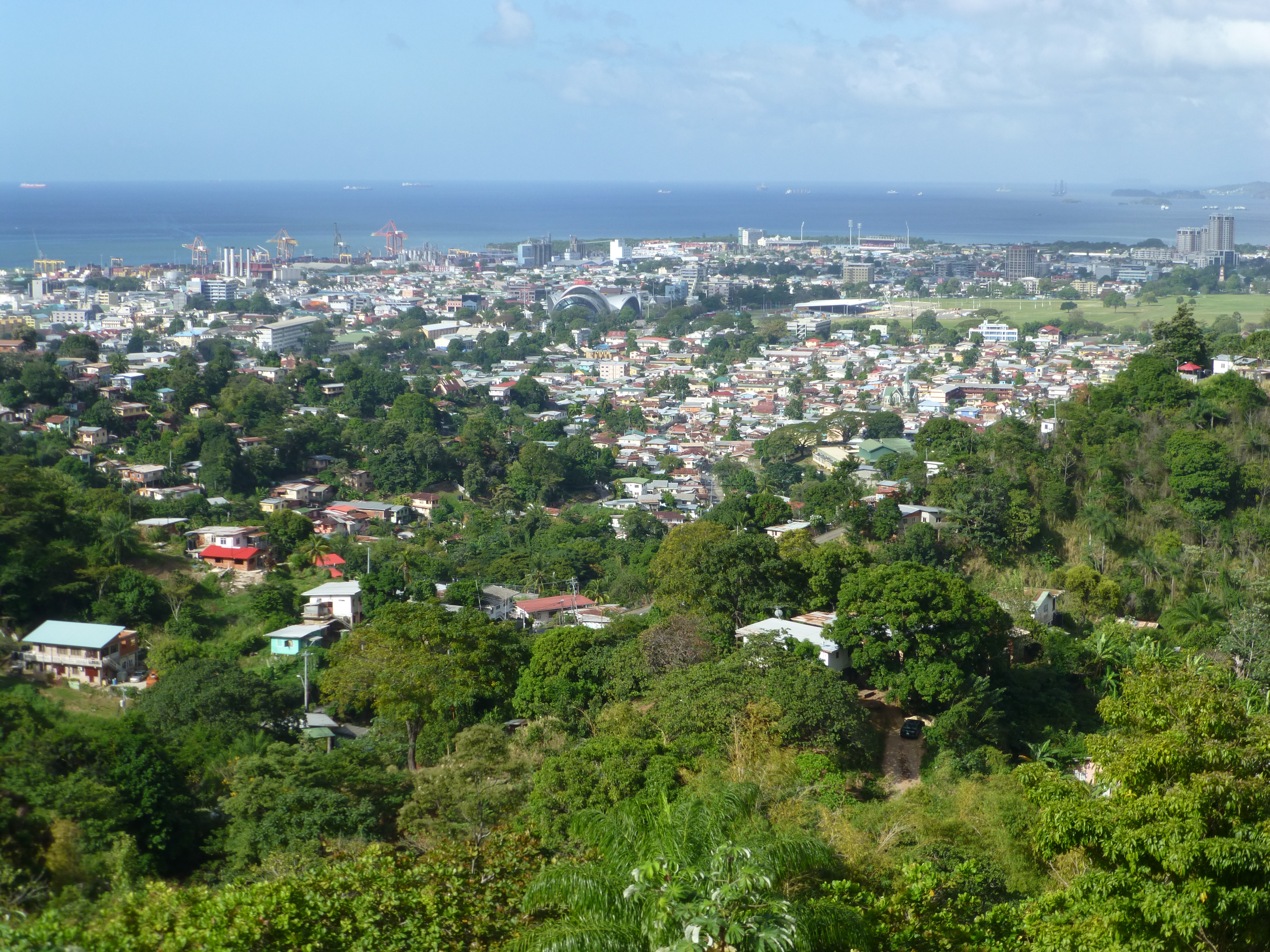 Port of Spain, Trinidad. Center: Belmont suburb.